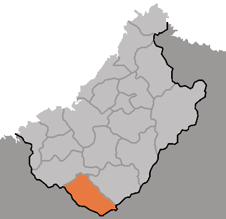 Map of Huichon, Chagang-do, DPRK, 2006